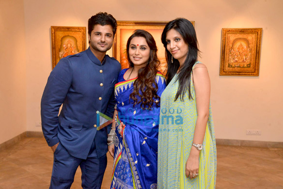 Rani Mukerji inaugurates Suvigya Sharma's art exhibition